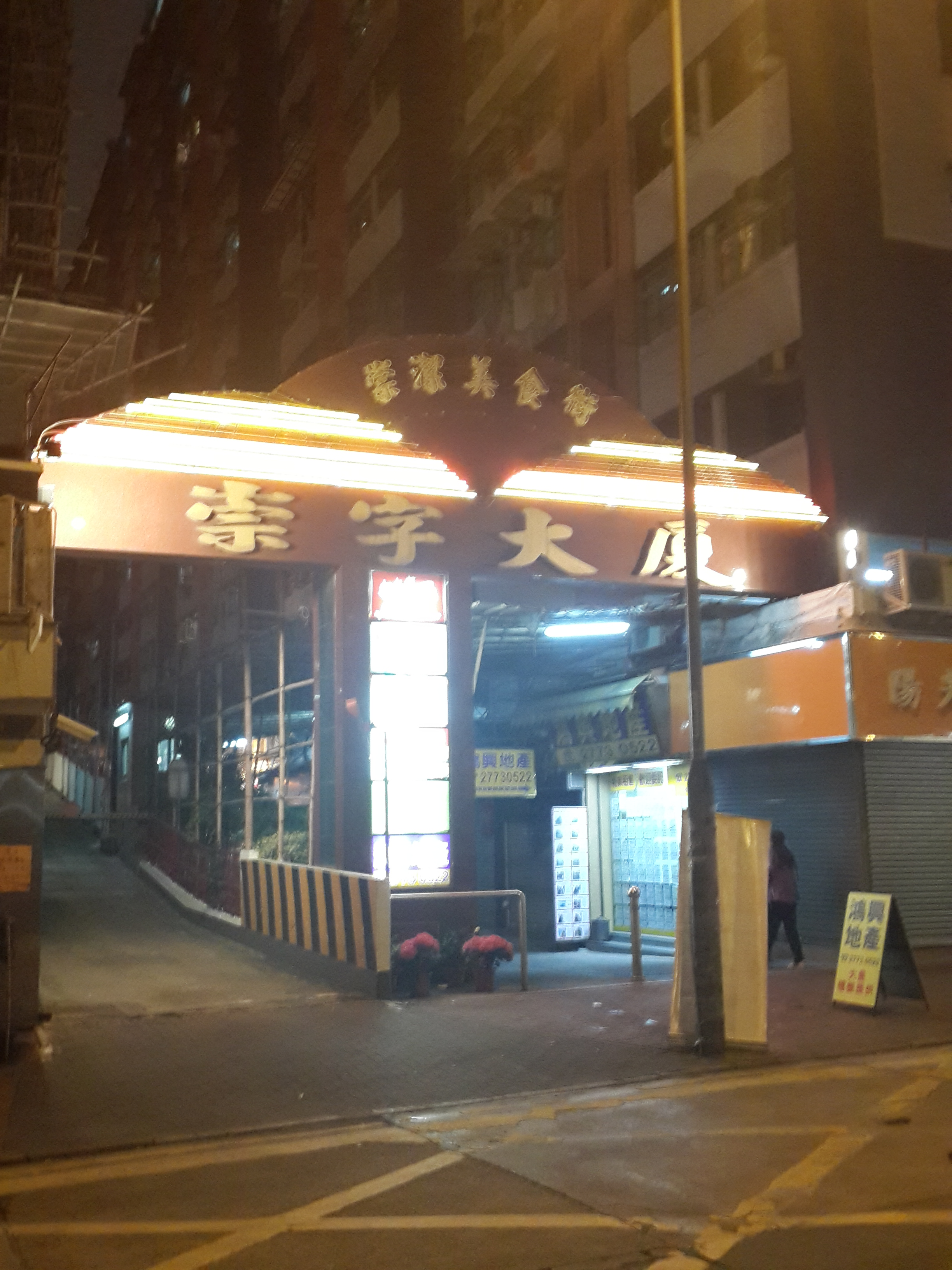 Sung Kit Street entrance